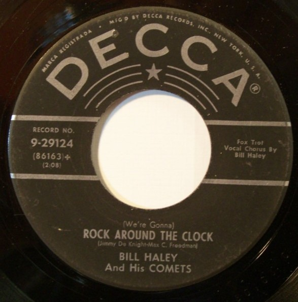 (We're Gonna) Rock Around the Clock by Bill Haley and his Comets, Decca 1954.